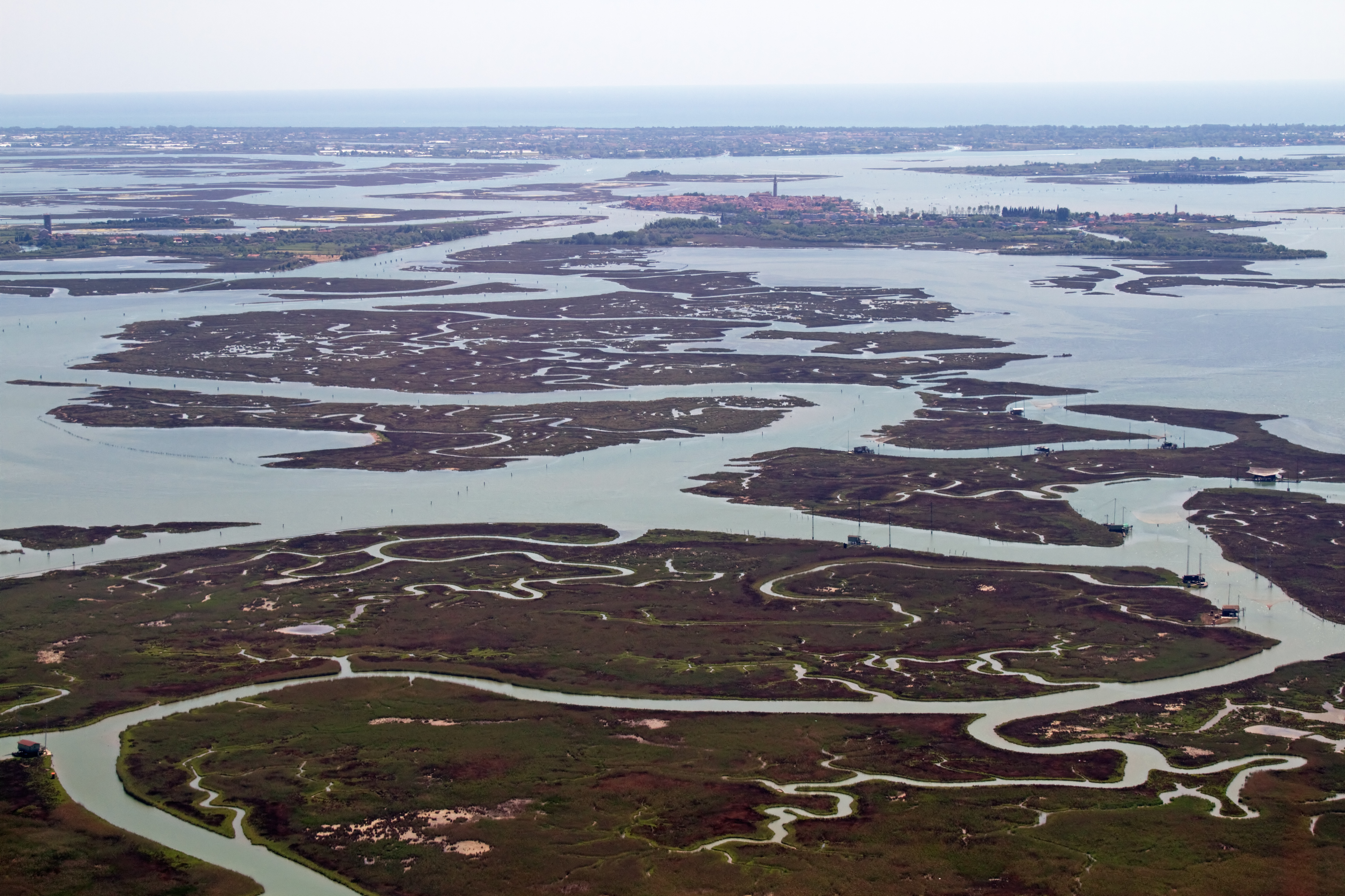 Venice Lagoon from above in the North of island Burano. Meanders in the saltmarshes of Palude Pagliaga in estuary of river Dese at confluence with Canale Silone (Sile).